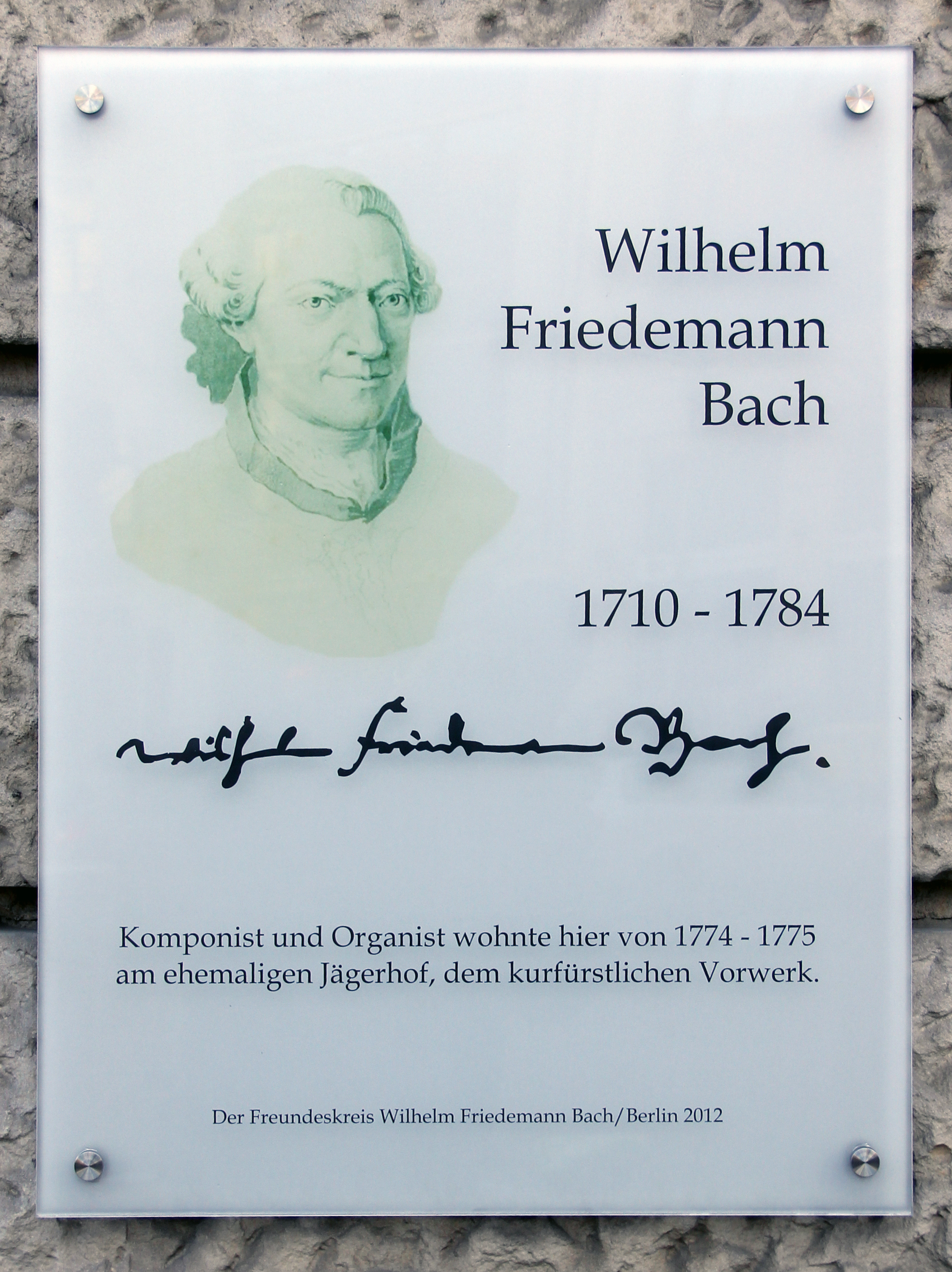 Memorial plaque, Wilhelm Friedemann Bach, Oberwallstraße 9, Berlin-Mitte, Germany